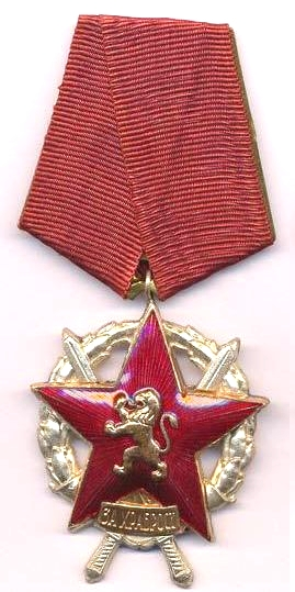 Bulgarian Order of Bravery. PRB. II Class.